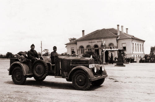 Phänomen Granit 25 reconnaissance car (built in Germany) of first series without doors with air-cooled gasoline engine of the Royal Bulgarian Army in Simeonovgrad (1941)